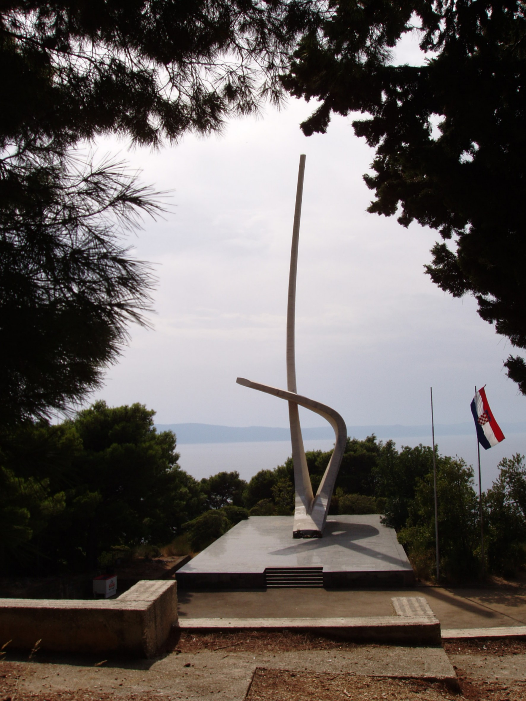 monument Galebova Krila, Podgora, Kroatien